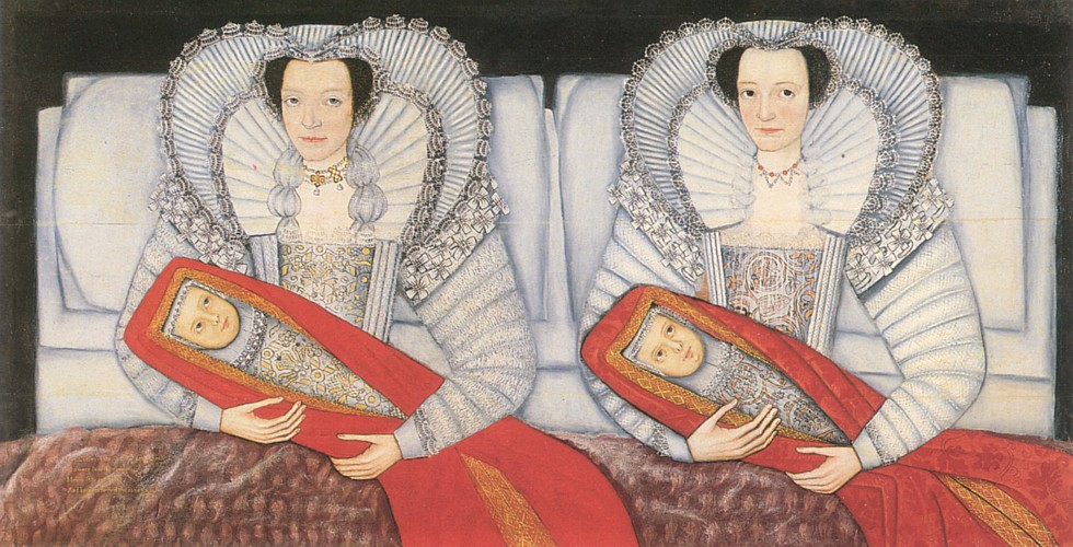 The Cholmondeley sisters and their swaddled babies